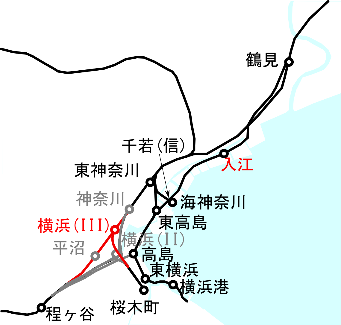 Railway route map around Yokohama port in 1929. New lines / stations since previous map are shown in red. Not changed lines / stations are shown in black. Disused lines / stations are shown in gray. Only national railway network is shown in this map. Yokohama station was moved again to its third (current) position.